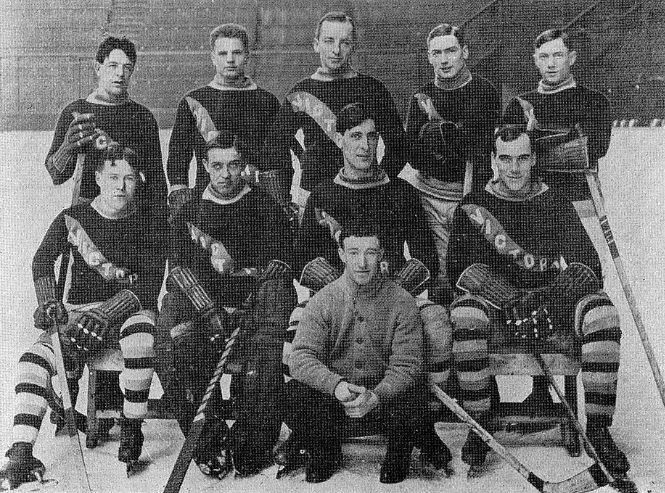 1914-15 Victoria Aristocrats hockey team Top row: Bobby Rowe, Jack Ulrich, Walter Smaill, Albert Kerr, Tommy Dunderdale Bottom row: Skinner Poulin, Bert Lindsay, Lester Patrick, Bobby Genge